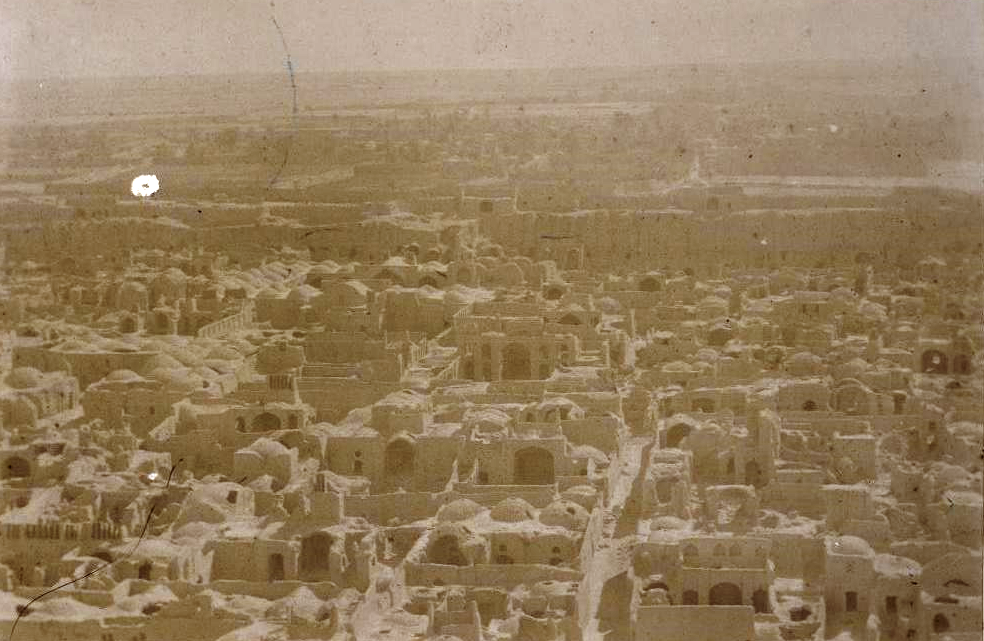 Ruins of Arg-é Bam in Qajar era, c. 1902